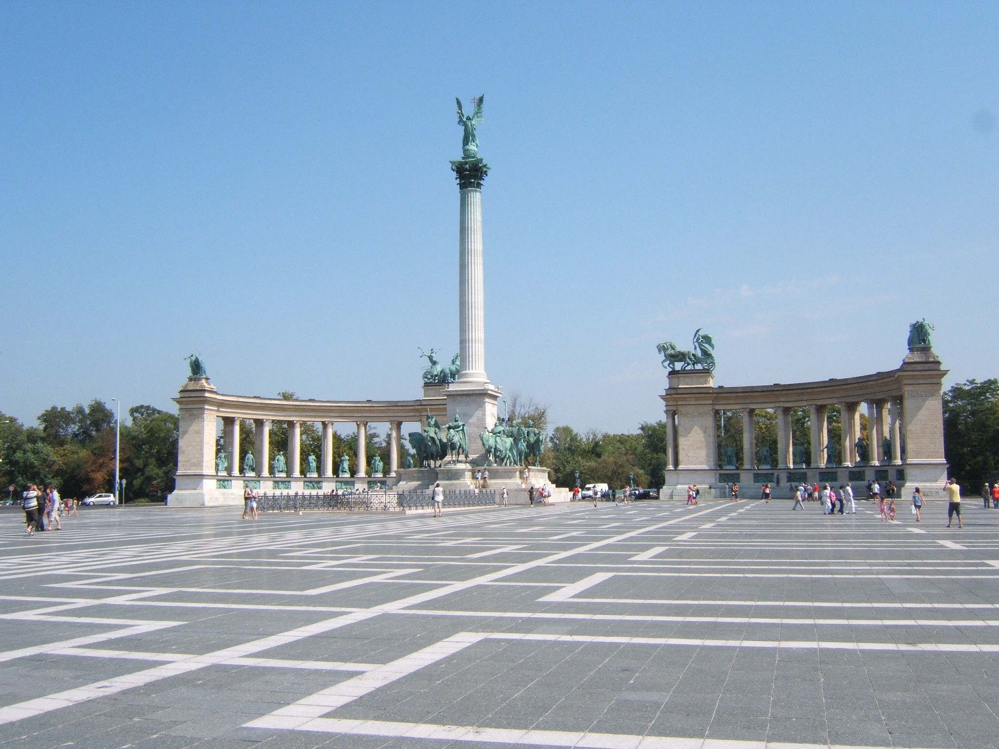 Budapest - Hősök tere (Heroes square), Millennium Memorial